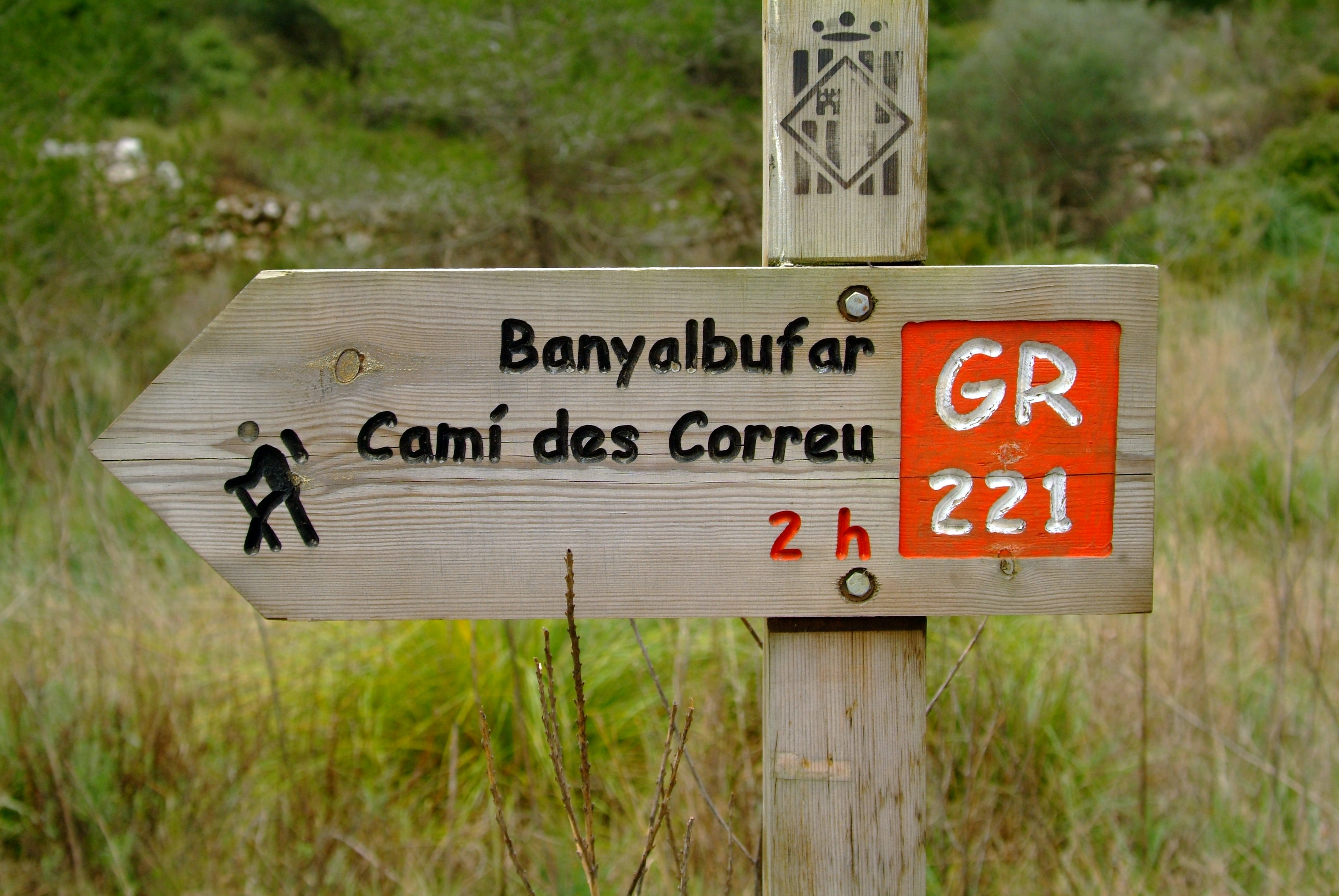 Walkway-Sign of the Longdistance-Walkway GR-221 on the Balearic Island of Mallorca / Spain / Europe